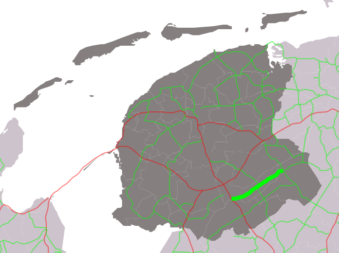 Map of Friesland with Dutch provincial road no. 380